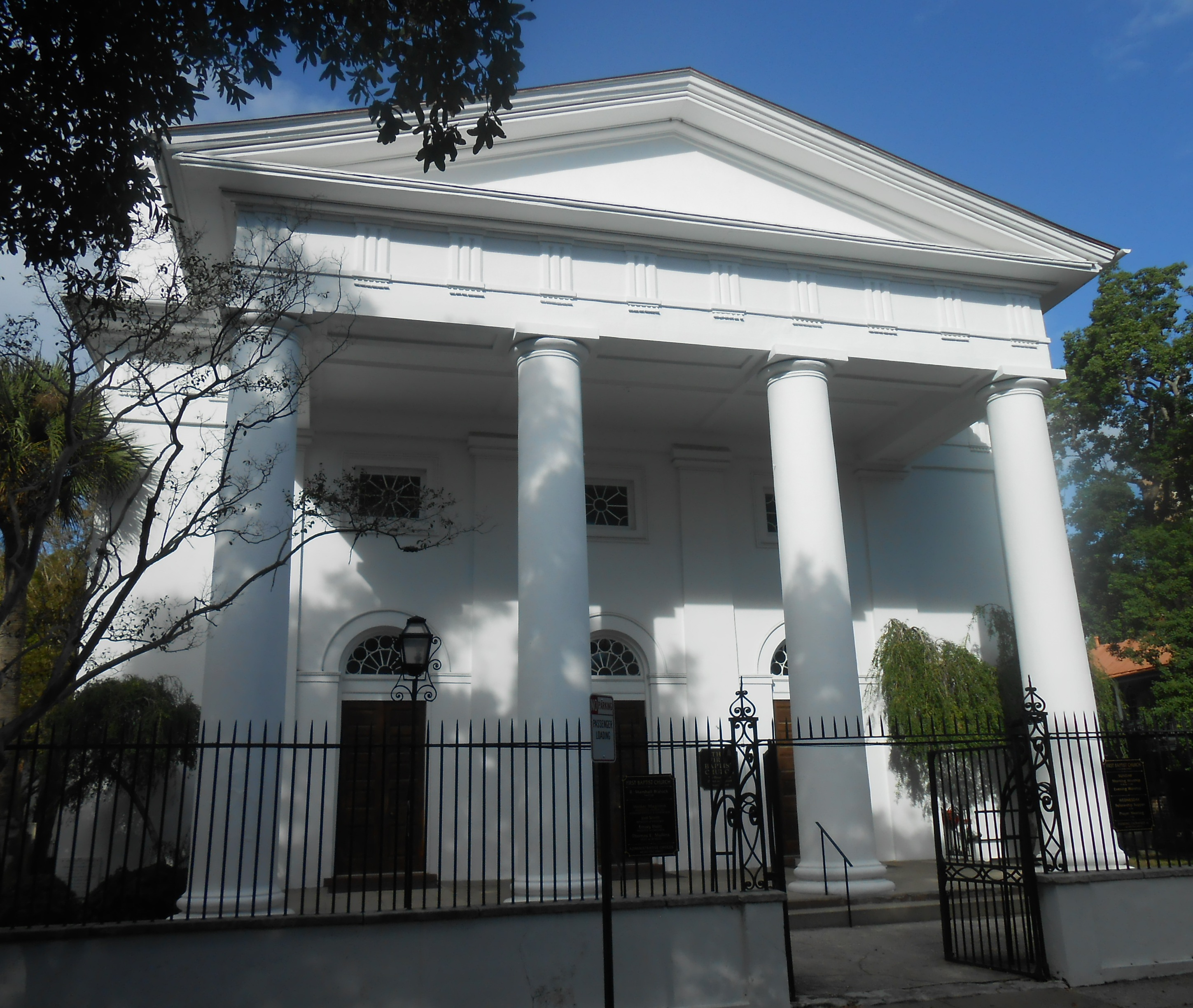 The First Baptist Church in Charleston, South Carolina was designed by Robert Mills in about 1820.